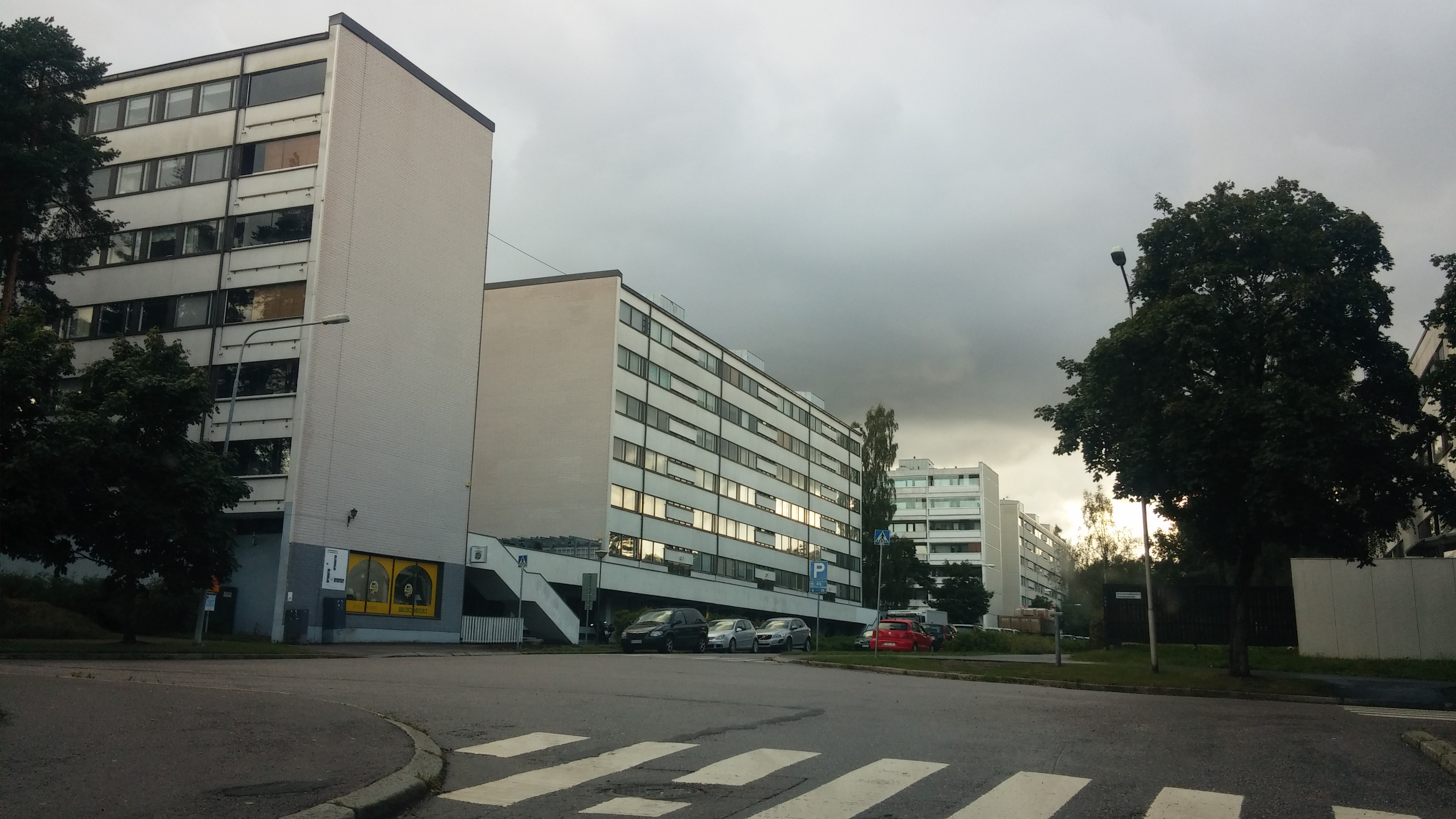 Iivisniemi is a district of southern Espoo, Finland.